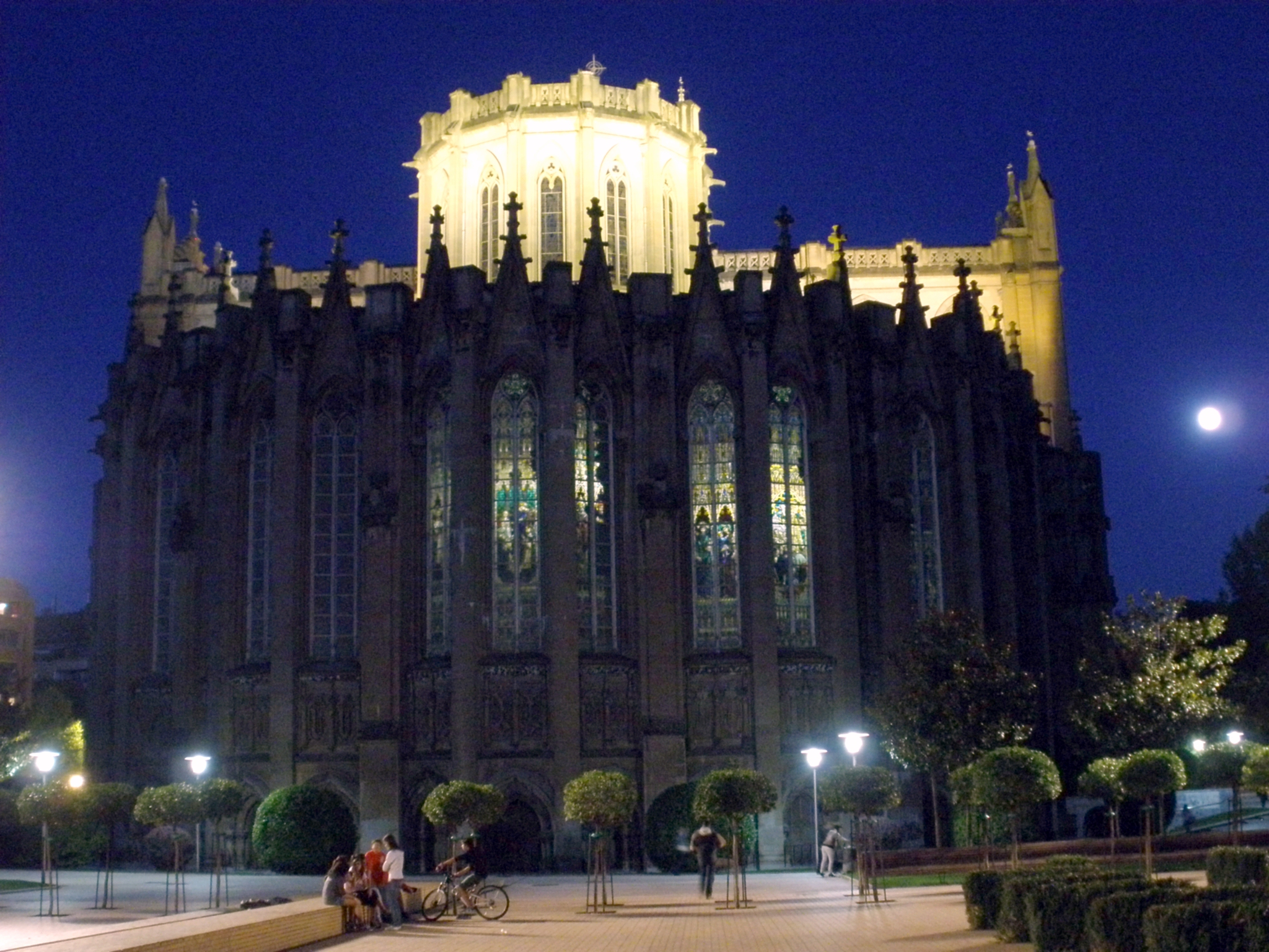 Catedral Nueva de Vitoria-Gasteiz (España)